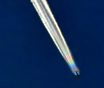 A contrail with iridescent color